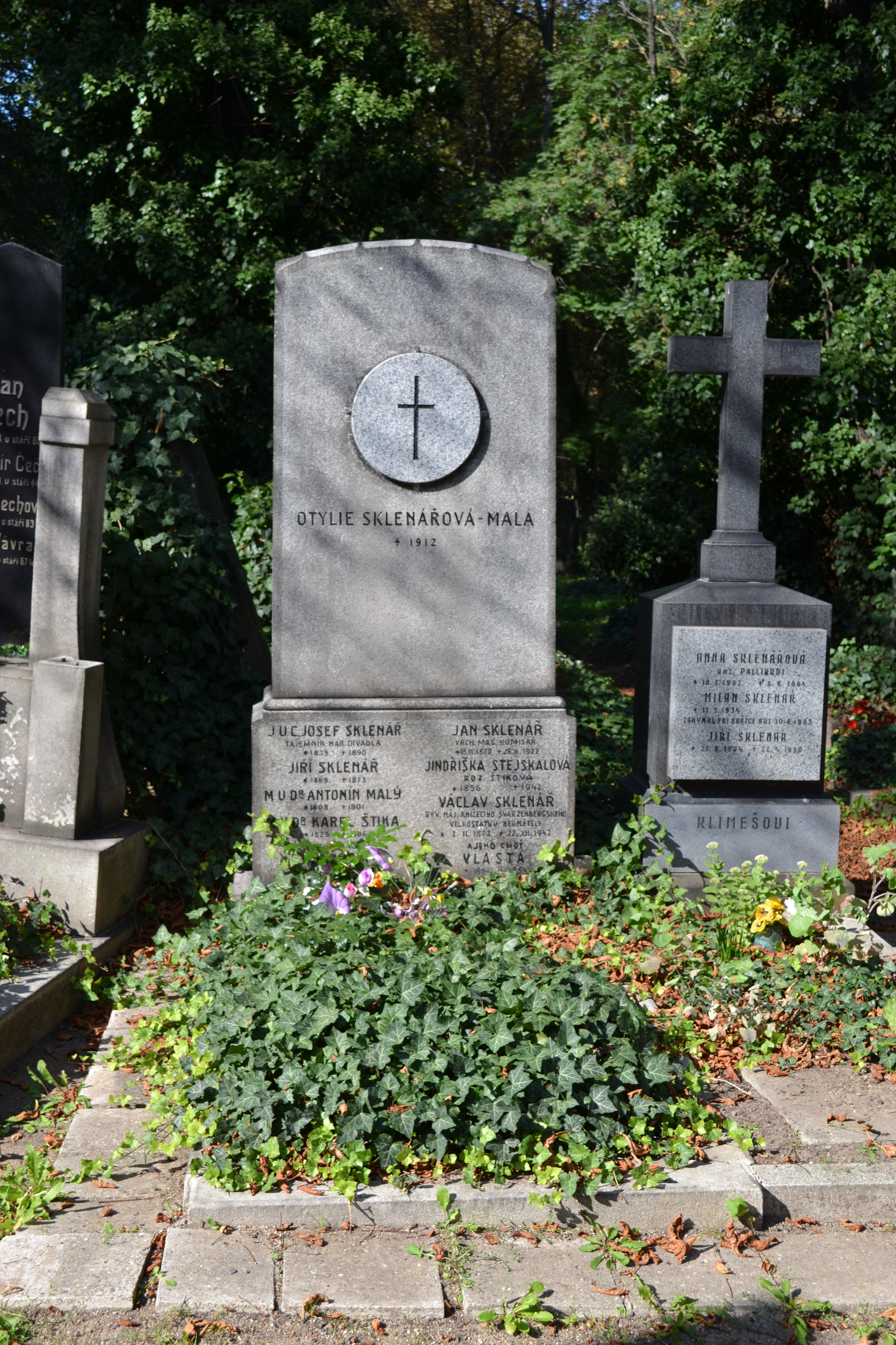 Tomb of Czech actress Otýlie Sklenářová-Malá, Olšany Cemetery, Prague